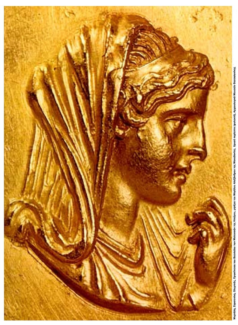 Roman medallion with Olympias